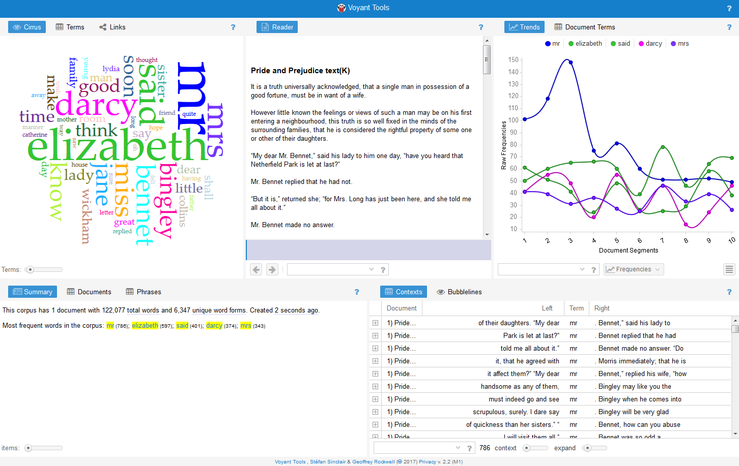 Text of Jane Austen's Pride and Prejudice in textual analysis program Voyant Tools